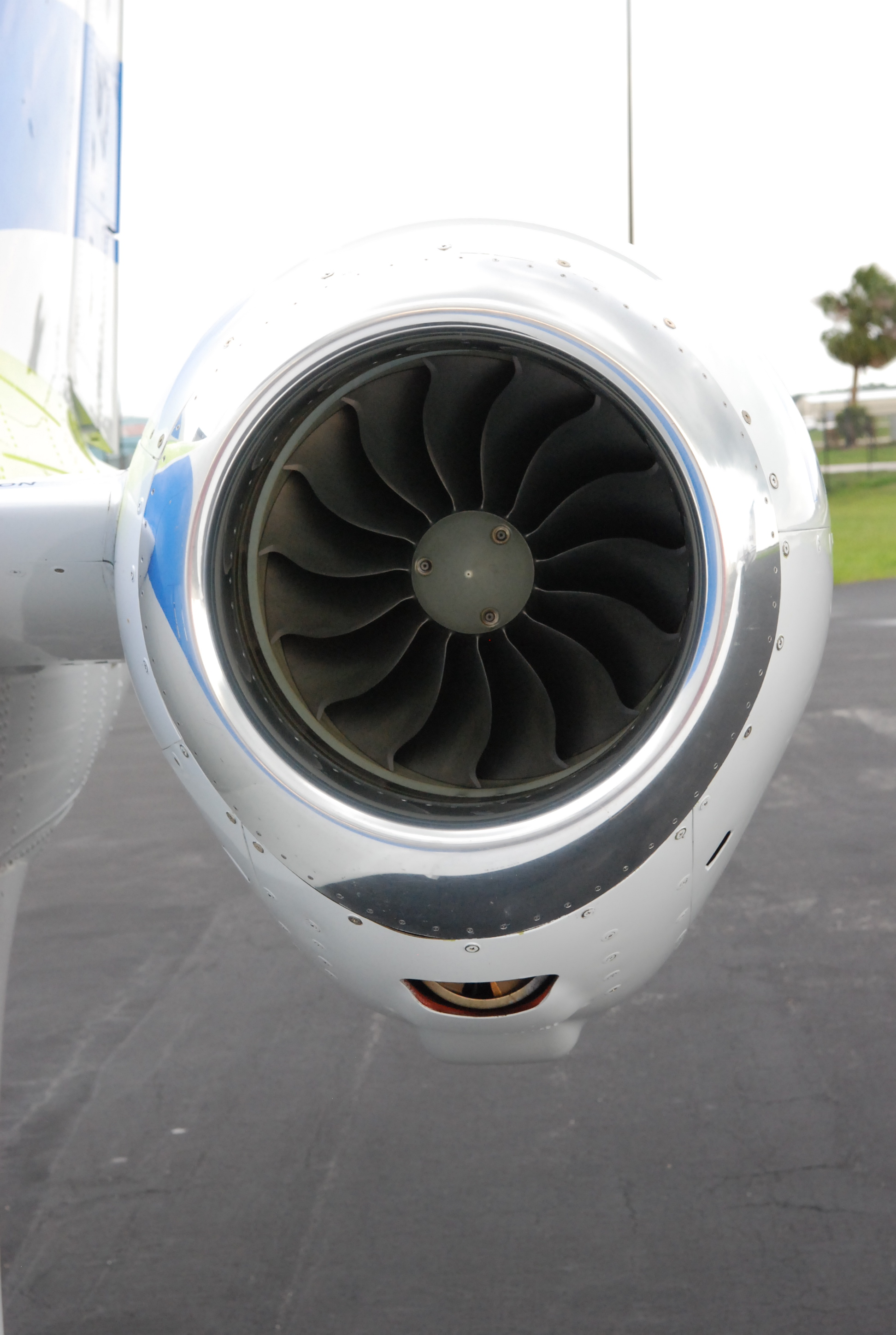 Inlet of a Pratt & Whitney Canada PW610F left of an Eclipse 500 aircraft.